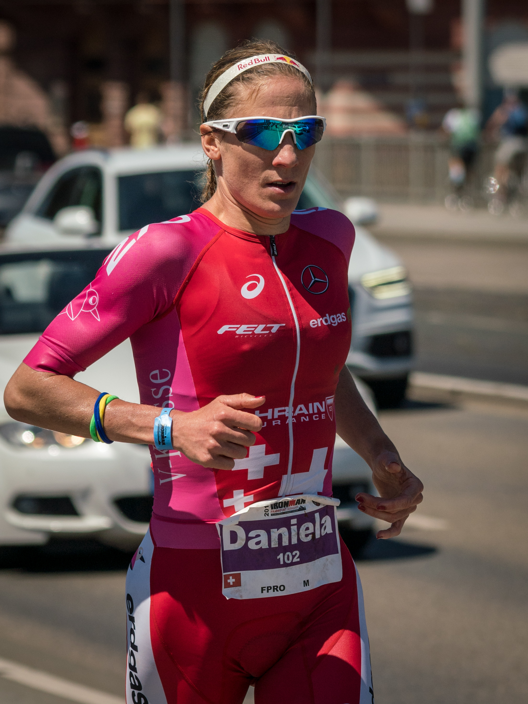 First female Daniela Ryf at the 2018 Ironman European Championship in Frankfurt am Main (Germany).